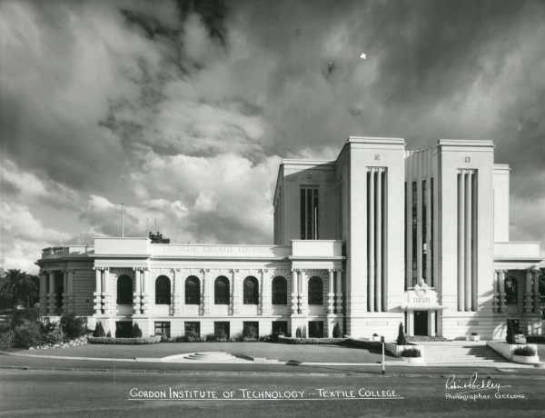 Gordon Institute of TAFE, Geelong, Victoria, Australia